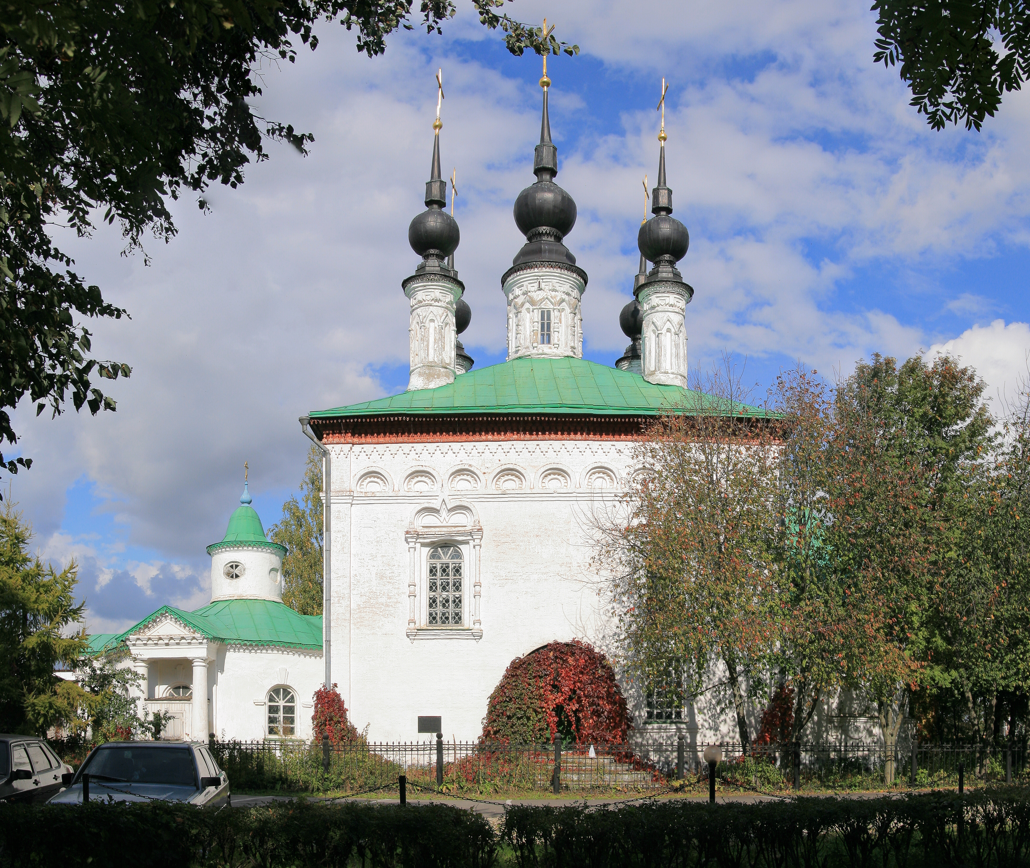 Saints Constantine and Helena church, Suzdal, 1707